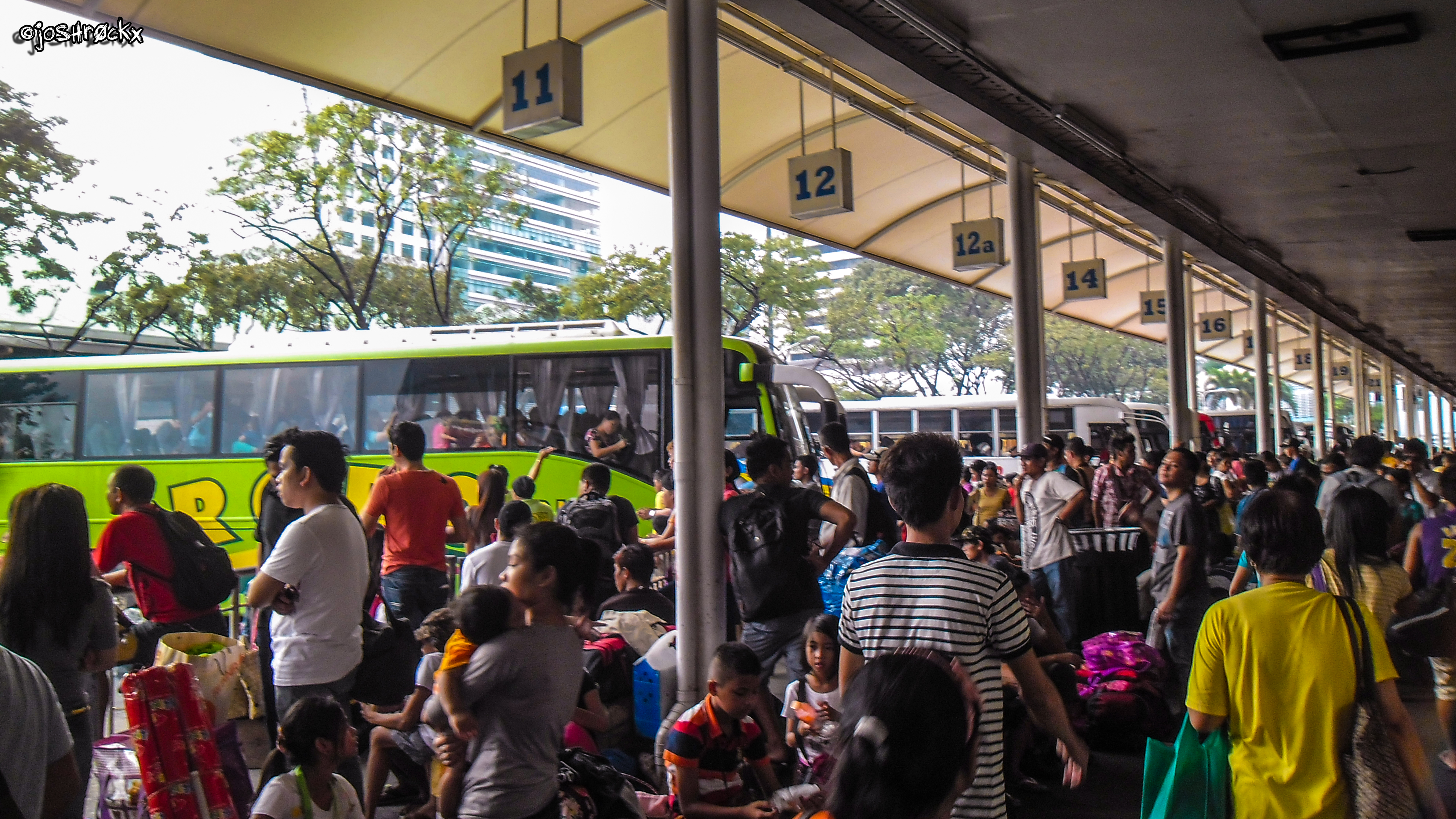 Araneta Center Bus Station